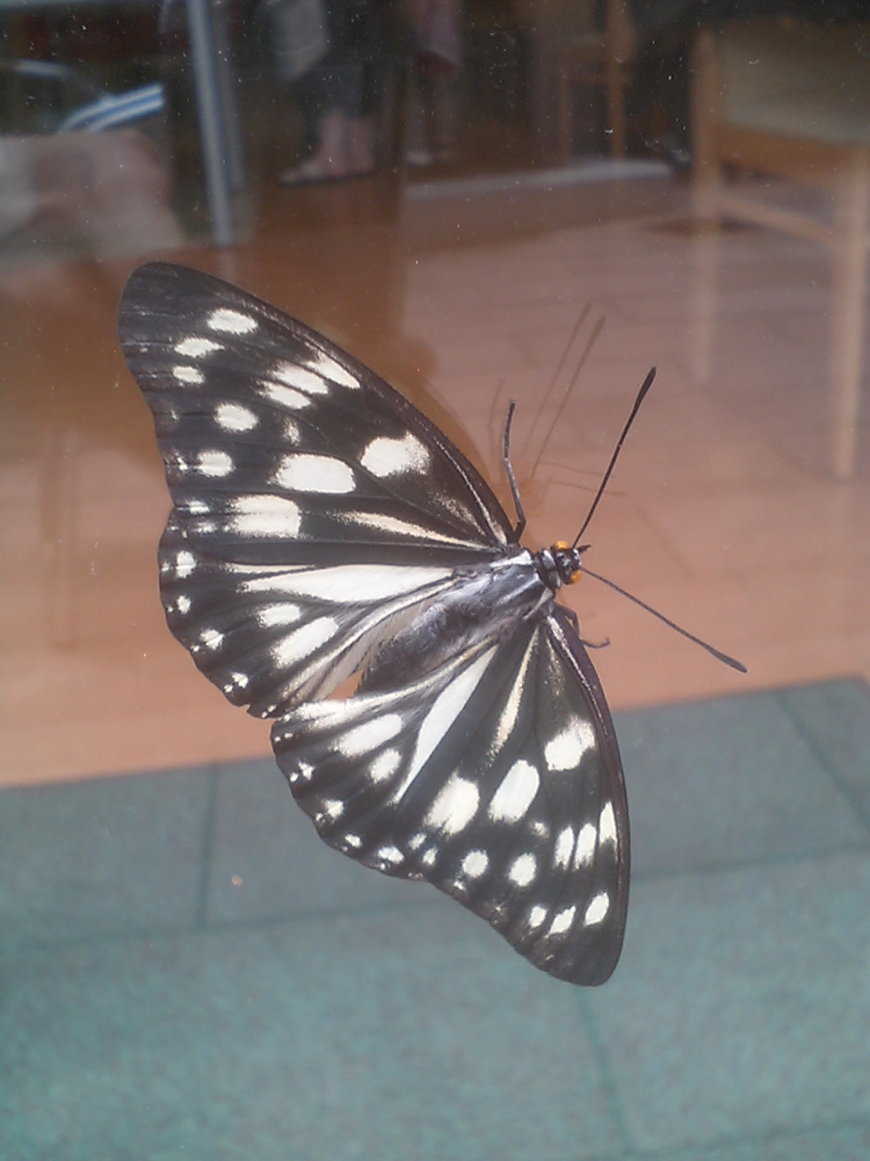 Siren, scientific name:Hestina persimilis japonica (C. et R. Felder, 1862)